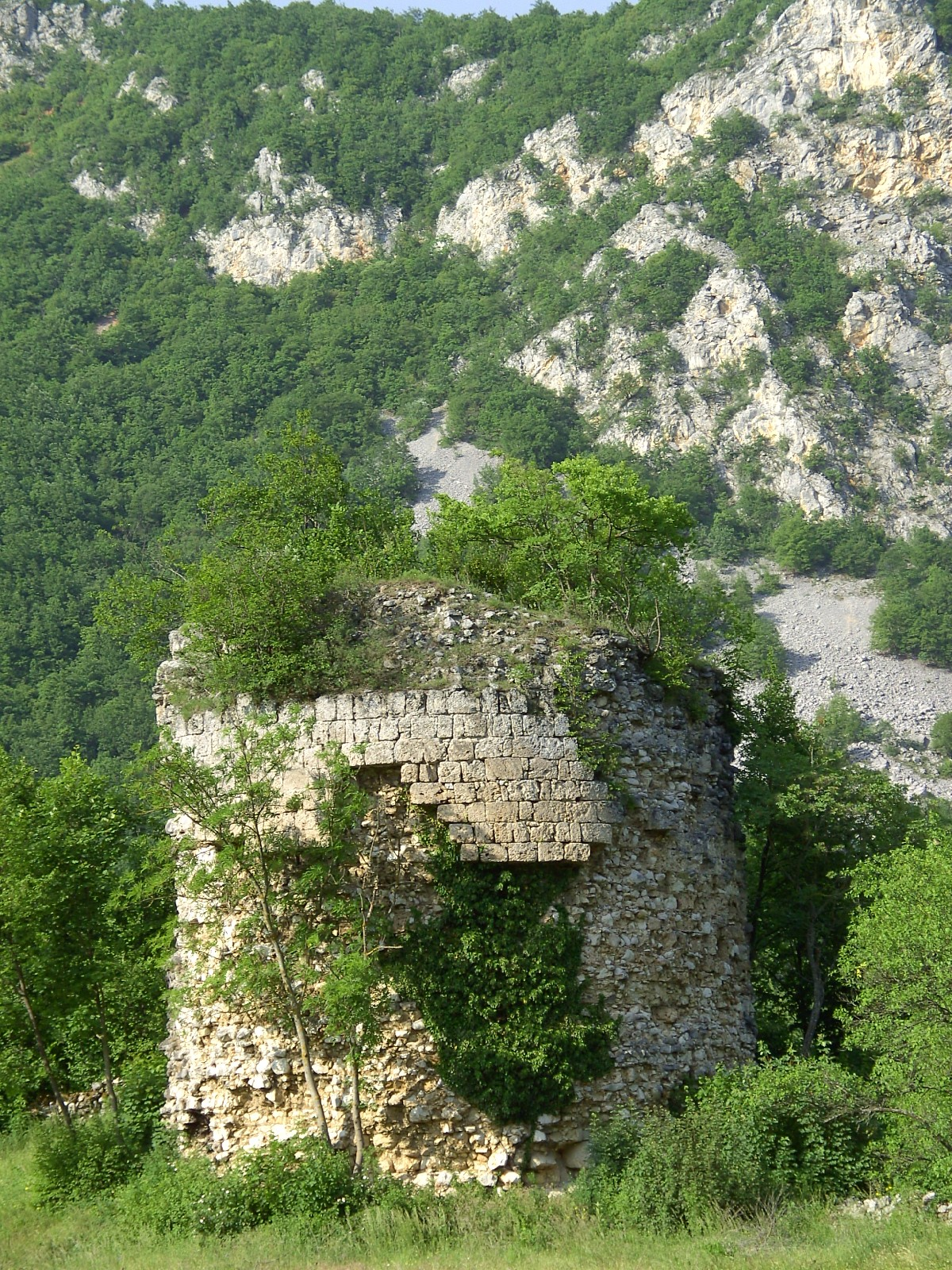 Turkish guardhouse from 15th century in Martin Brod, BiH